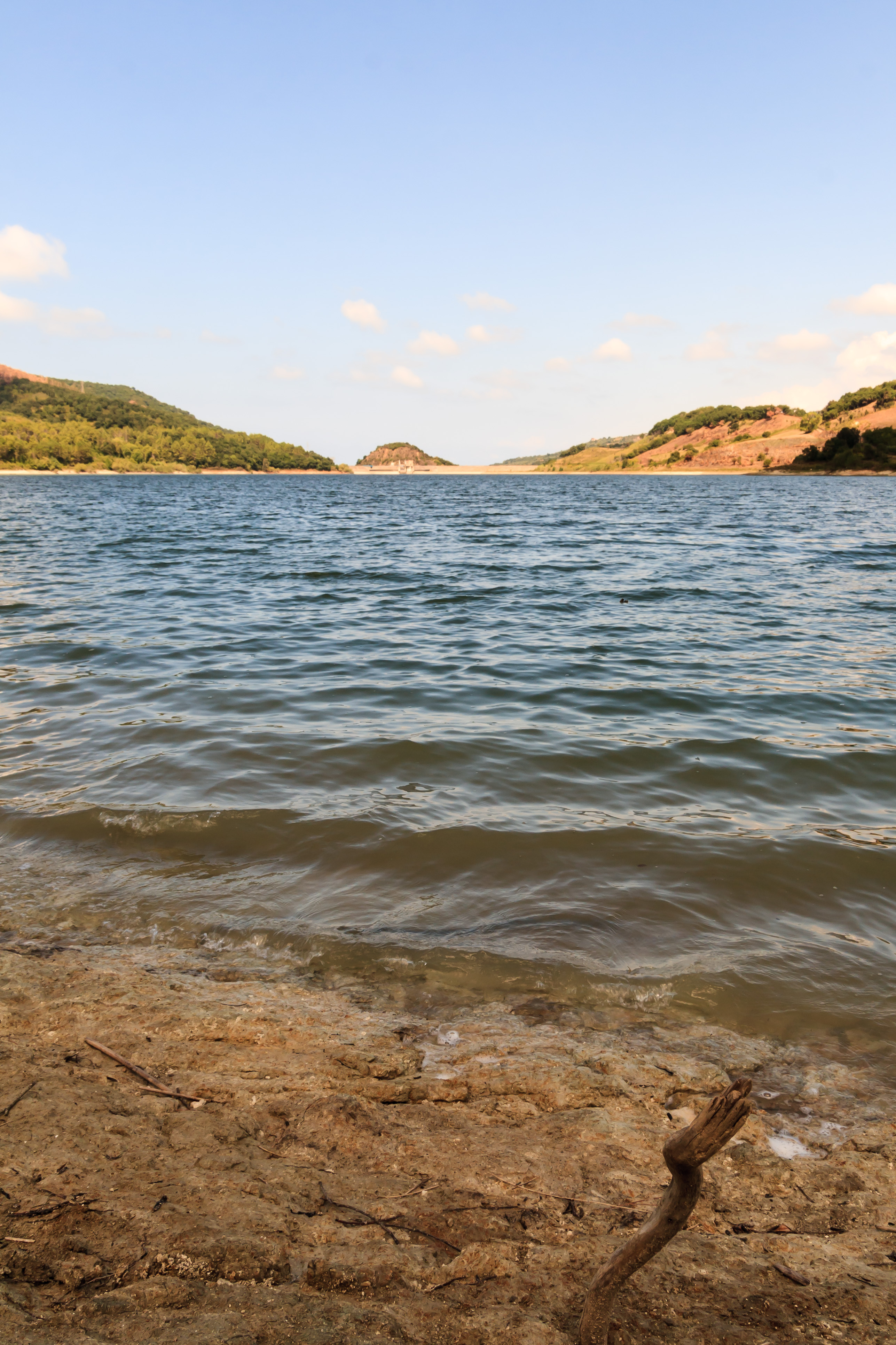 Angitola lake; the dam is visible in the distance This is a photo of a monument which is part of cultural heritage of Italy. The authorisation for taking photos of this object was provided by the World Wide Fund for Nature Italy.